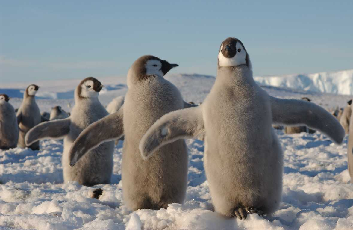 Emperor Penguin, Atka Bay, Weddell Sea, Antarctica